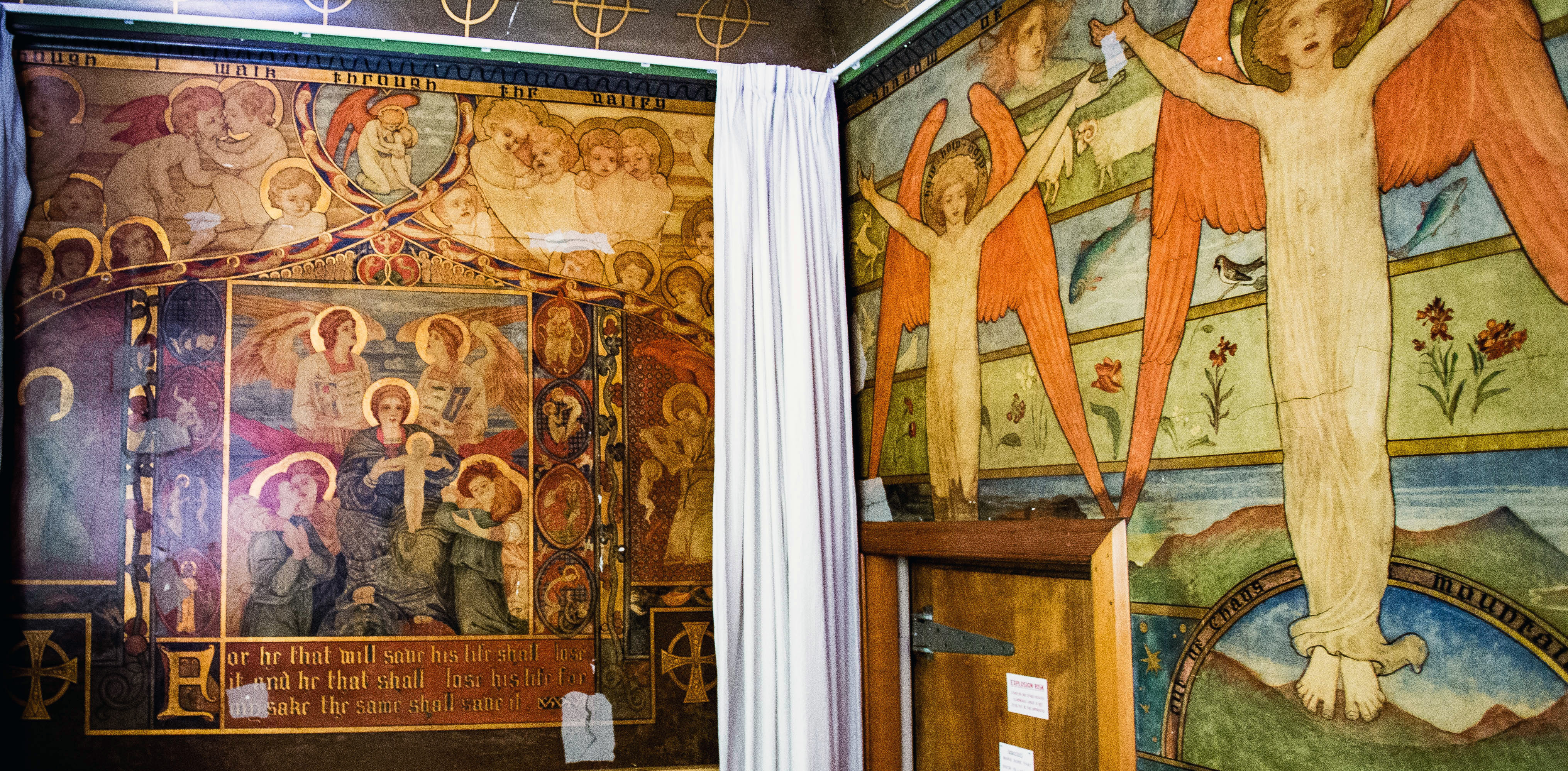 Mural paintings by Phoebe Anna Traquair in the Mortuary Chapel of the Royal Hospital for Sick Children in Sciennes, Edinburgh.